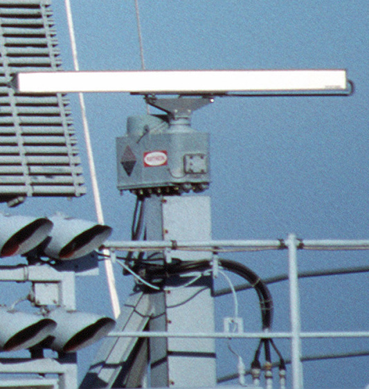 AN/SPS-46(V)9 radar antenna on the USS Theodore Roosevelt aircraft carrier. This is an X-band (8-12 GHz) marine navigational radar similar to types on civilian ships, used to detect other ships in the vicinity. It has a peak power of 7 kW, a range of somewhere around 35 nautical miles. This type of antenna is called a slot antenna and radiates a narrow vertical fan-shaped beam of microwaves, about 15° high and 2.2° wide. A motor in the housing below rotates the bar-shaped antenna to scan the beam around the horizon.